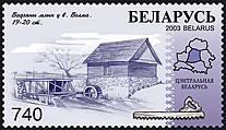 Water mill in the village Volma. 19-20 sent